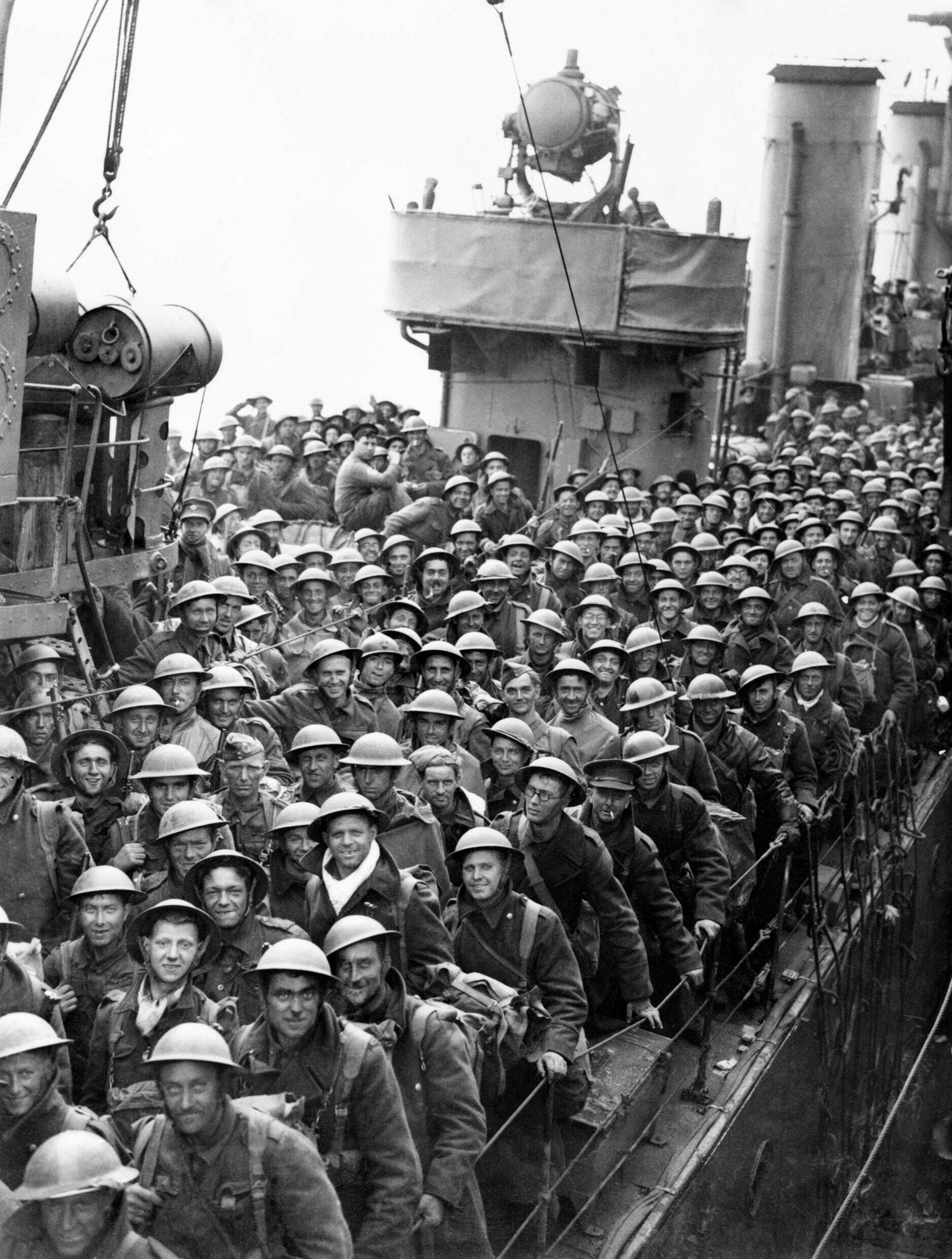 Dunkirk 26-29 May 1940 British troops on board a destroyer at Dover wait to leave the ship.